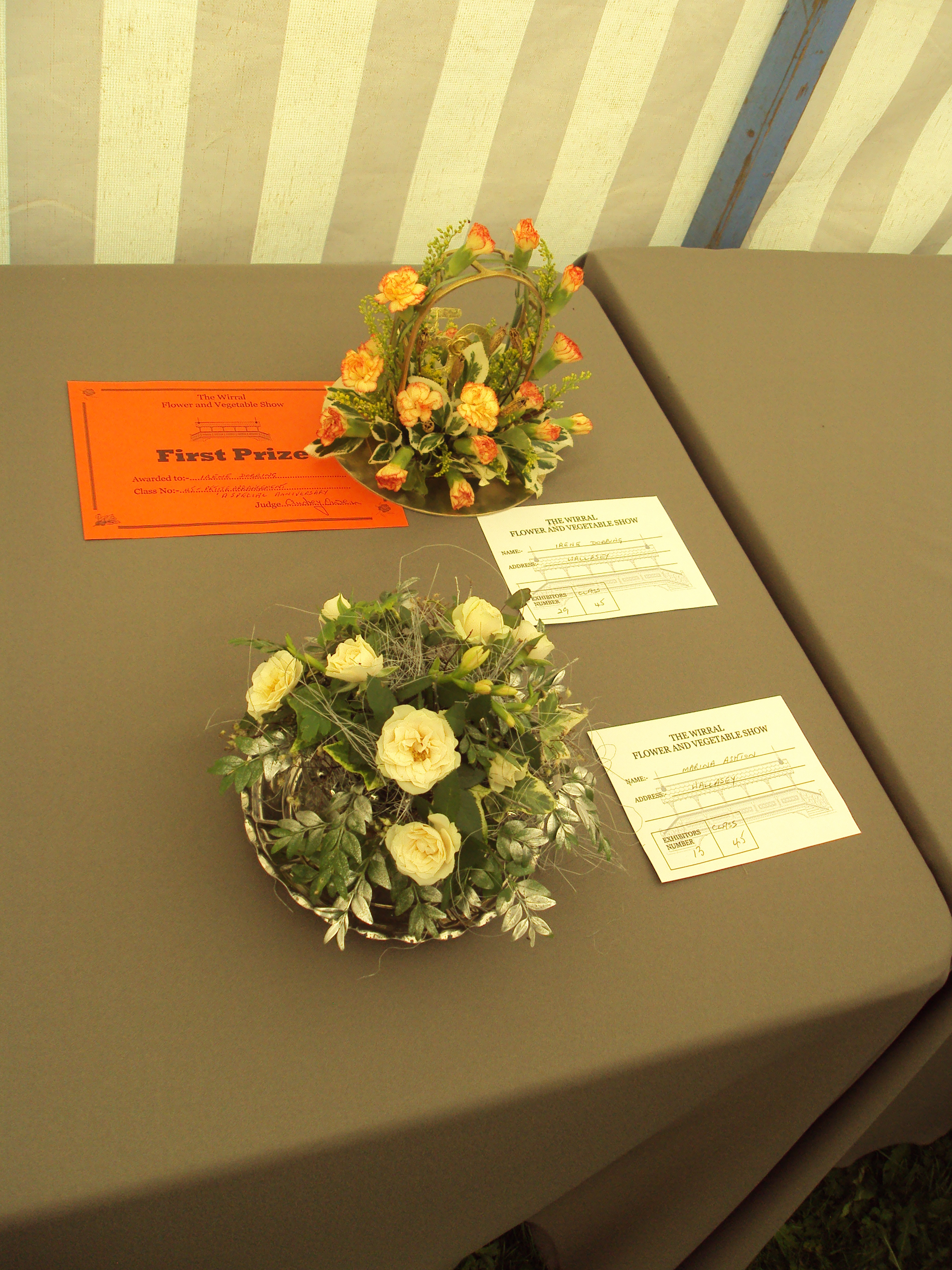 Petite arrangement at the 5th Wirral flower and vegetable show, Birkenhead Park, Merseyside, England.